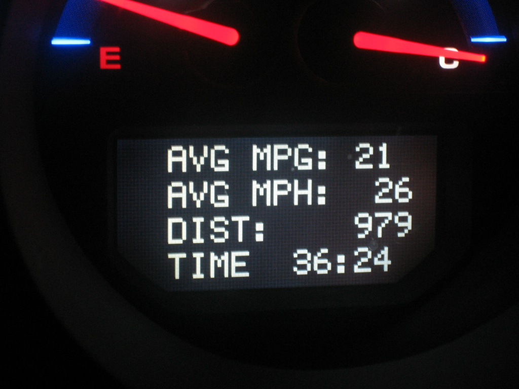 The actual trip computer function in a 2004 Acura TL shows the driver's average fuel consumption, speed, distance, and elapsed ignition on time since the last reset. Some vehicles automatically reset these numbers when the vehicle is refueled but in the TL, it must be manually reset by the driver. Here, fuel consumption is shown in American miles per gallon, speed in miles per hour, distance in miles, and elapsed time in hours and minutes, not minutes and seconds.